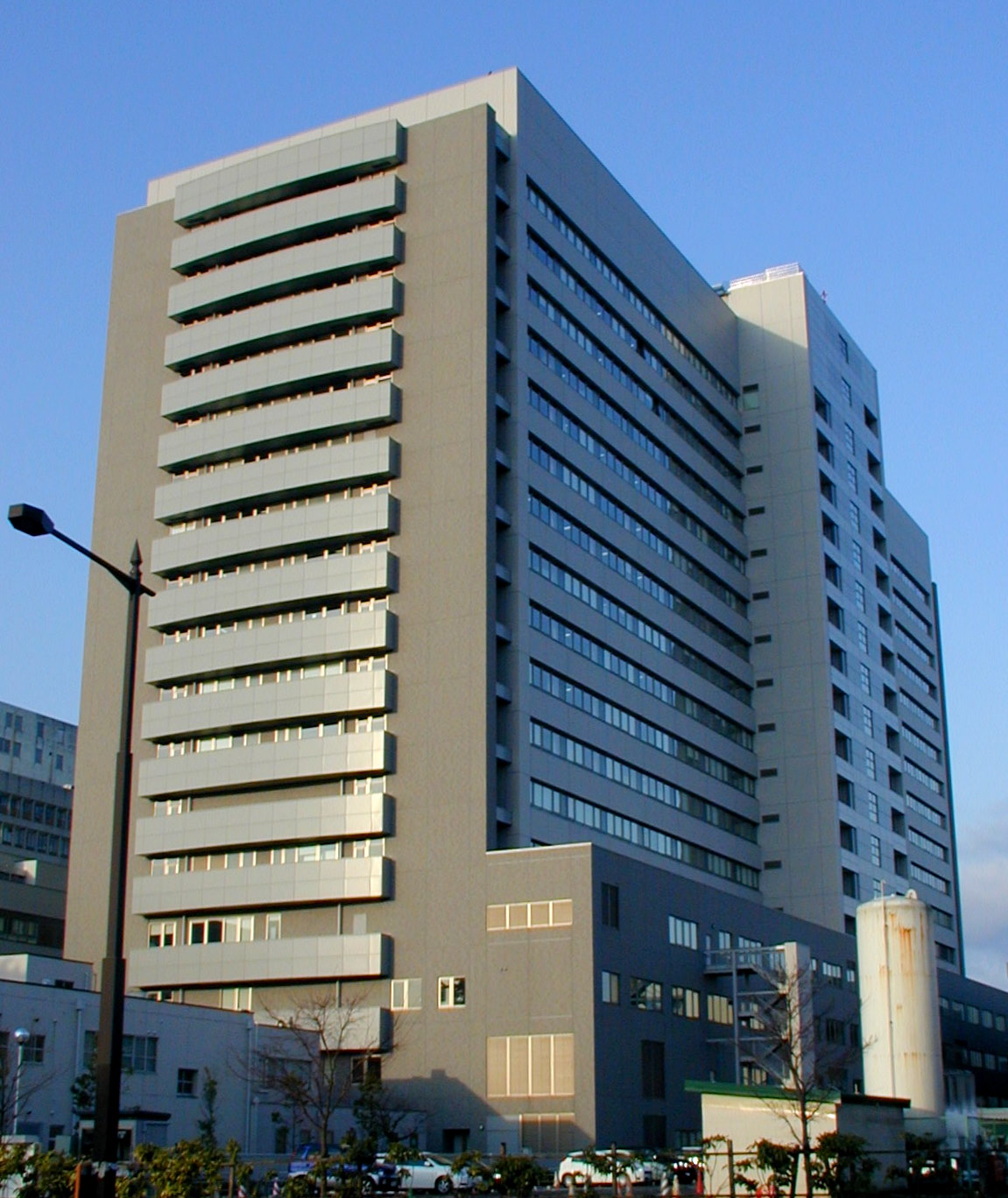 the East and West Ward buildings of Tohoku University Hospital viewed from the northeast